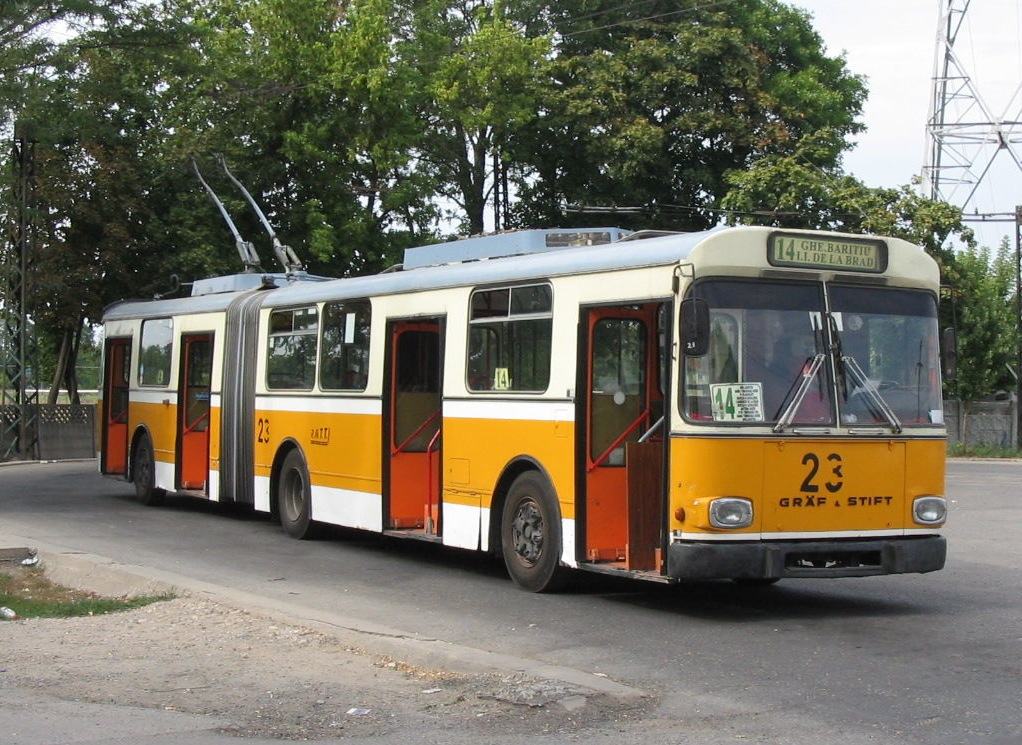 Timişoara 23, a 1980 Gräf & Stift GE105 trolleybus, was acquired in 1997 from the Mürztaler Verkehrs-Gesellschaft (Kapfenberg, Austria), where it had carried the same fleet number. It is pictured laying over at the northern end of route 14, Strada Ion Ionescu de la Brad terminus. It was retired/withdrawn in Timişoara in 2007 or 2008.